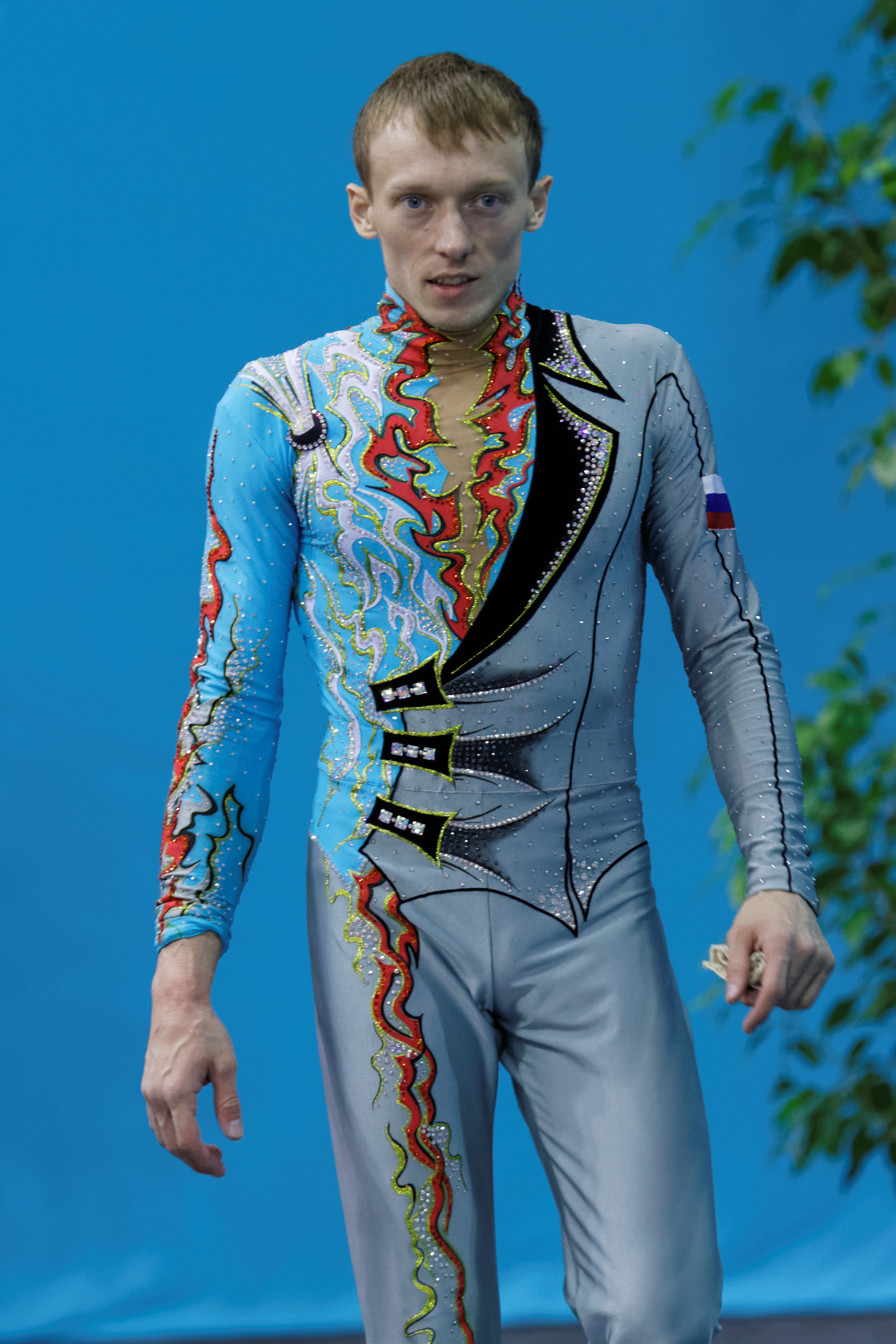 2014 Acrobatic Gymnastics World Championships, 10th-12 July, Levallois-Perret, France. Qualifications: men's pair. Russia.